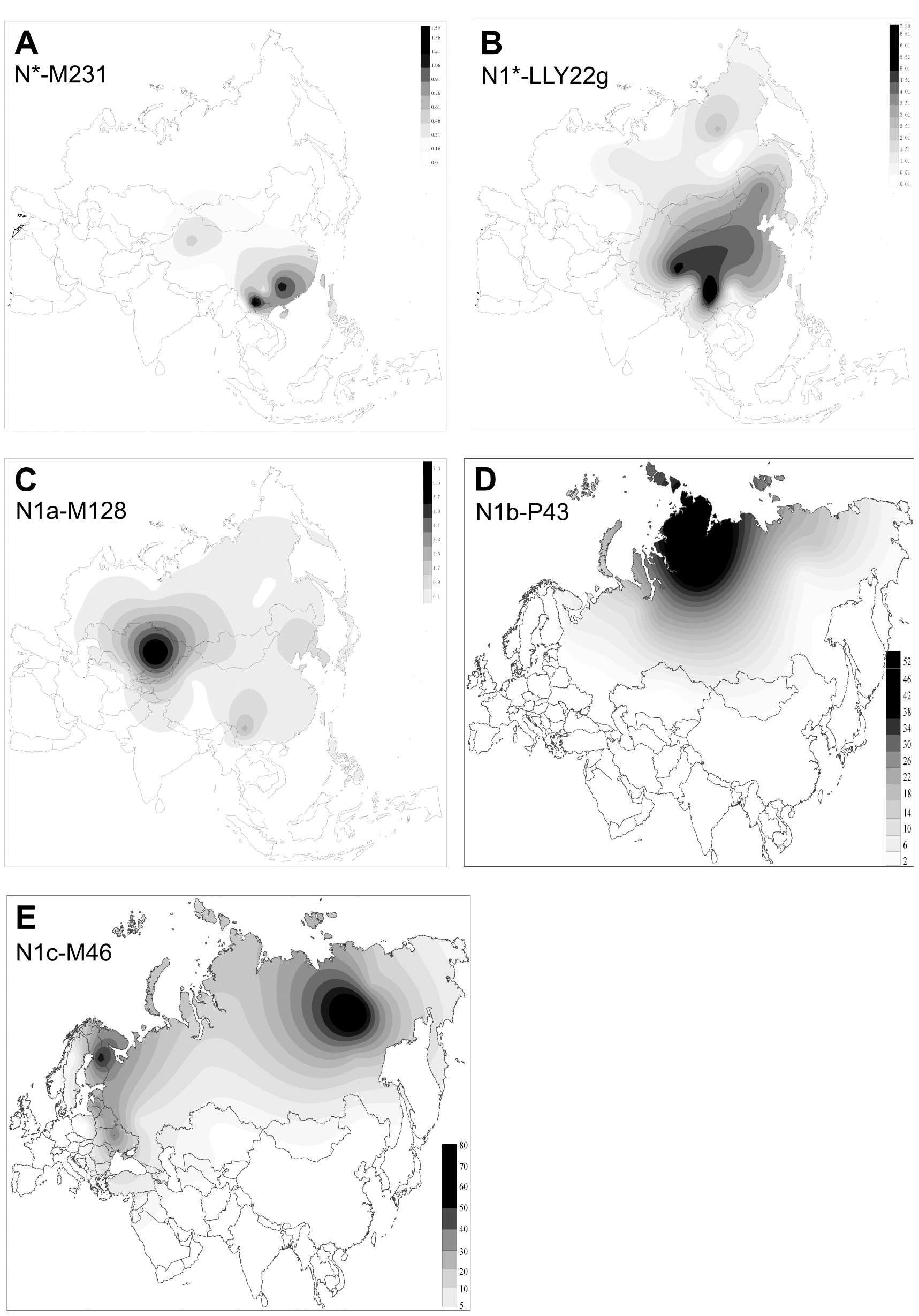 Contour maps of sub-haplogroups of Y-chromosome Haplogroup N. (A) N*-M231, (B) N1*-LLY22g, (C) N1a-M128, (D) N1b-P43, (E) N1c-M46. (The regional populations used is listed in Table S3).